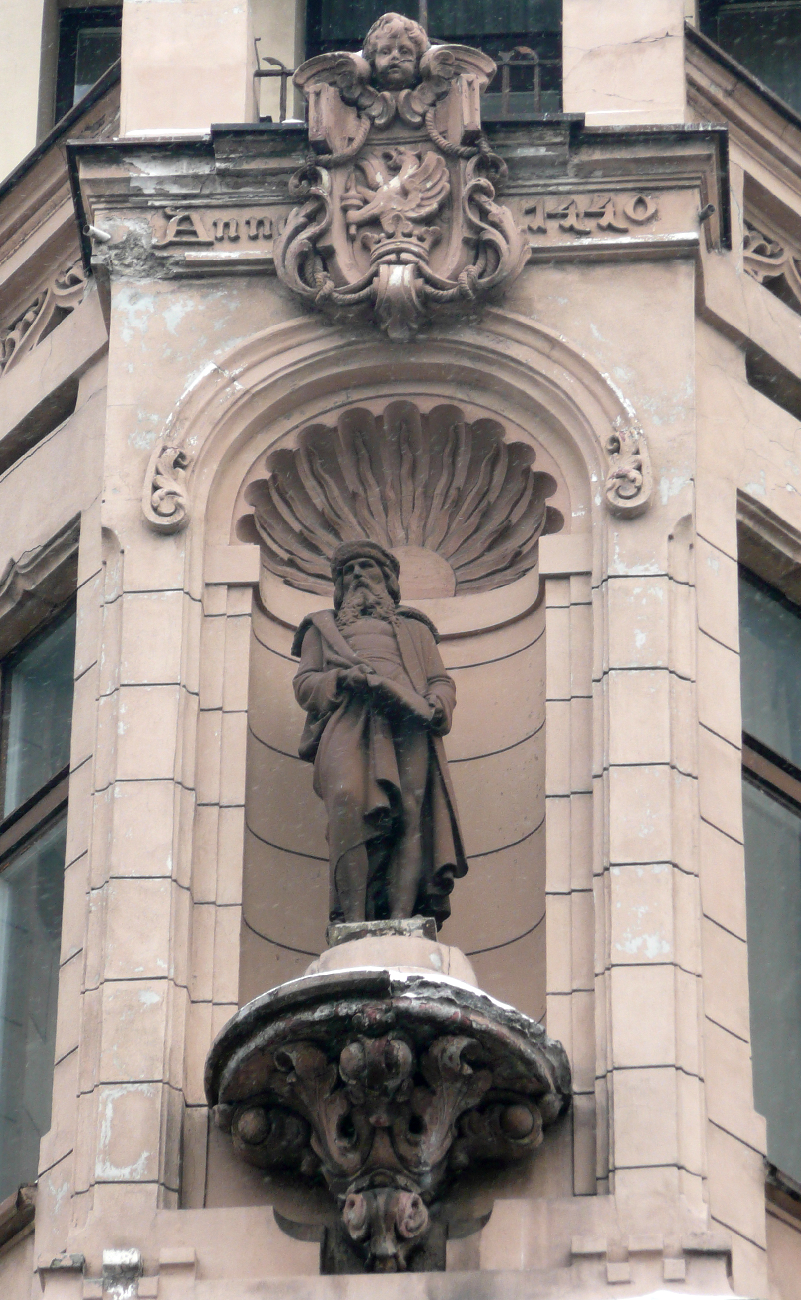 Johannes Gutenberg statue in Łódź (Poland), on Piotrkowska Str. 86 on the printing house of Dziennik Łódzki/Lodzer Zeitung newspaper.